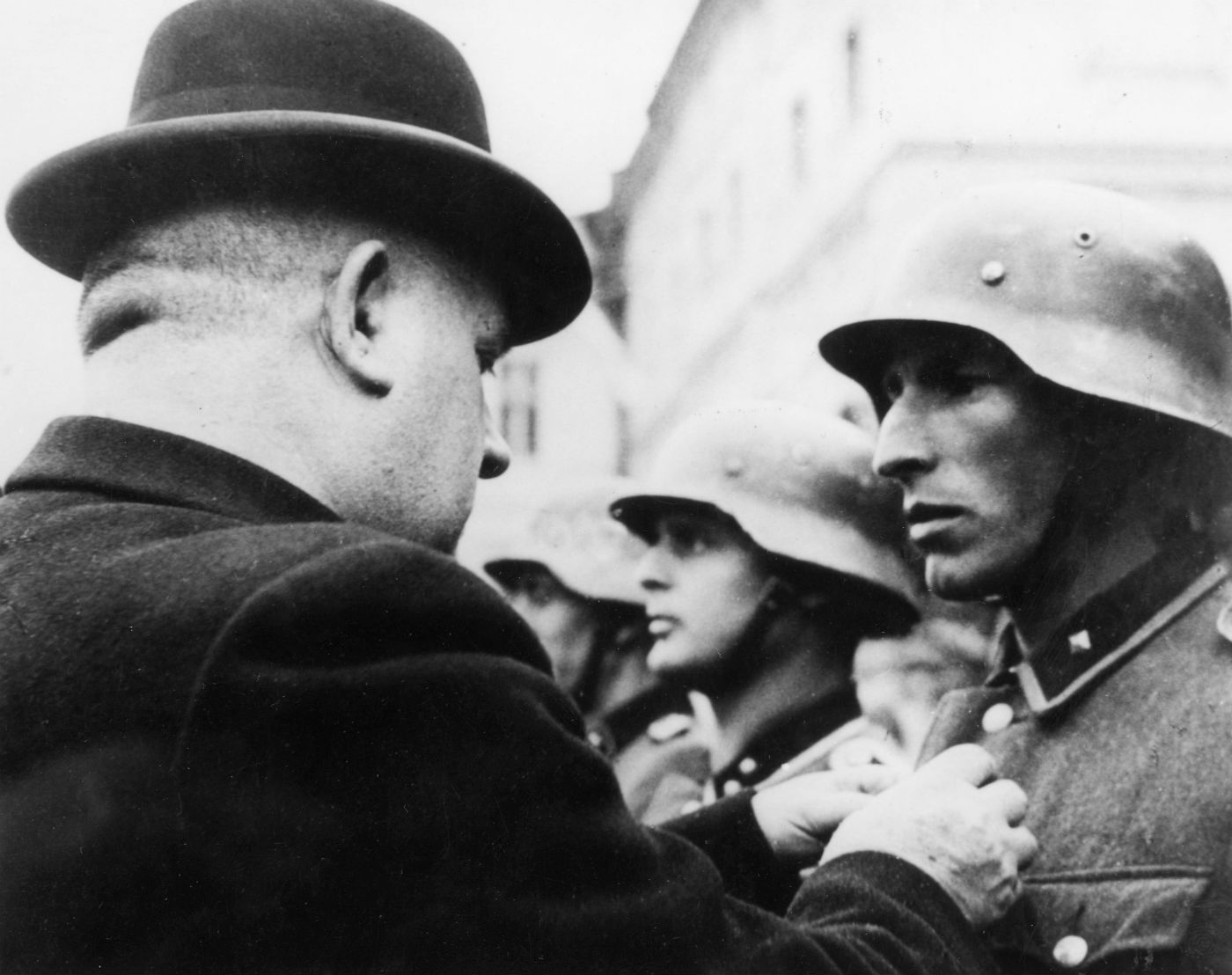 Jozef Tiso decorates German soldiers in Banská Bystrica, higher resolution of File:Jozef Tiso decorates German soldiers.png